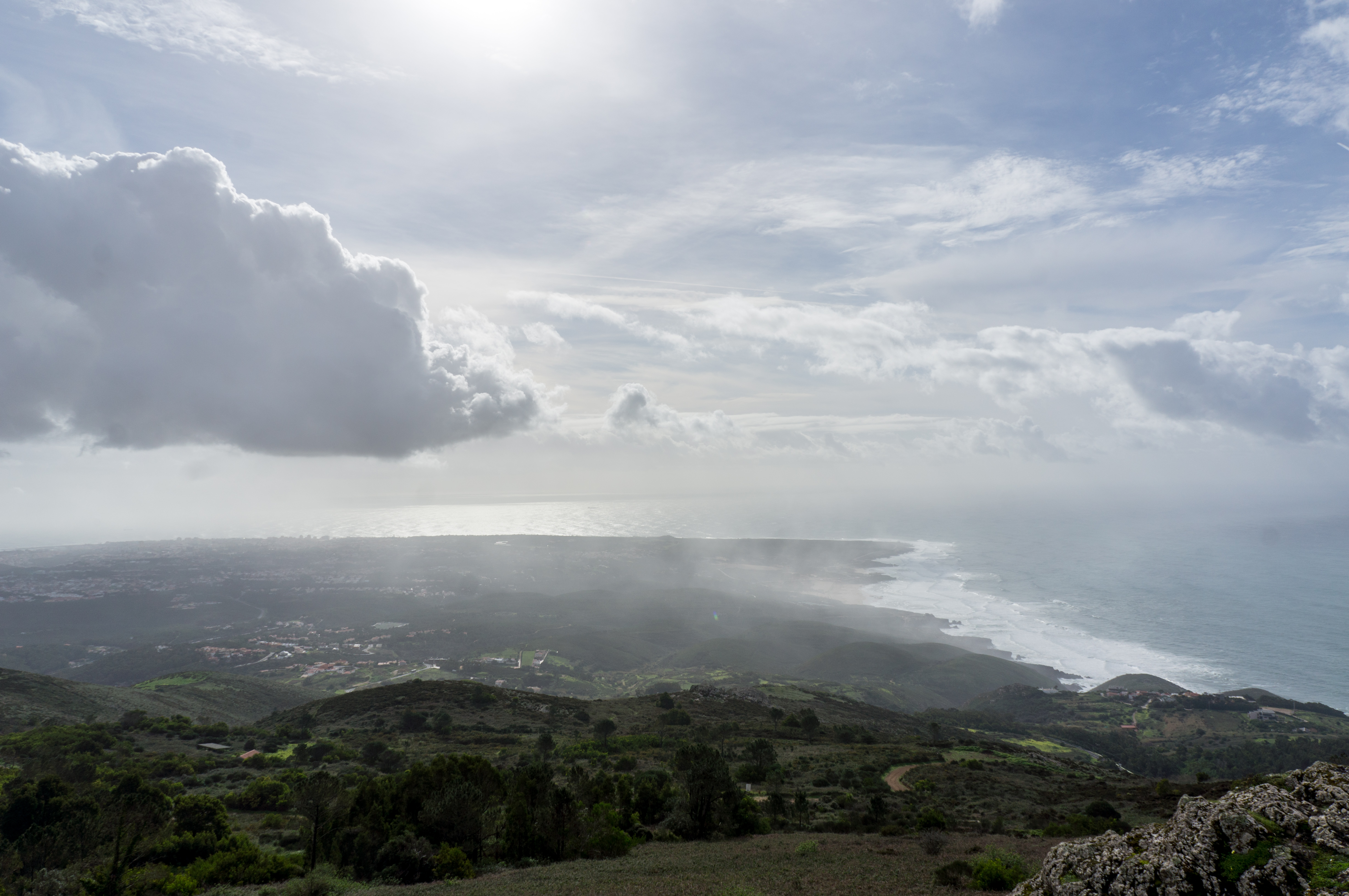 looking over an village at the coast